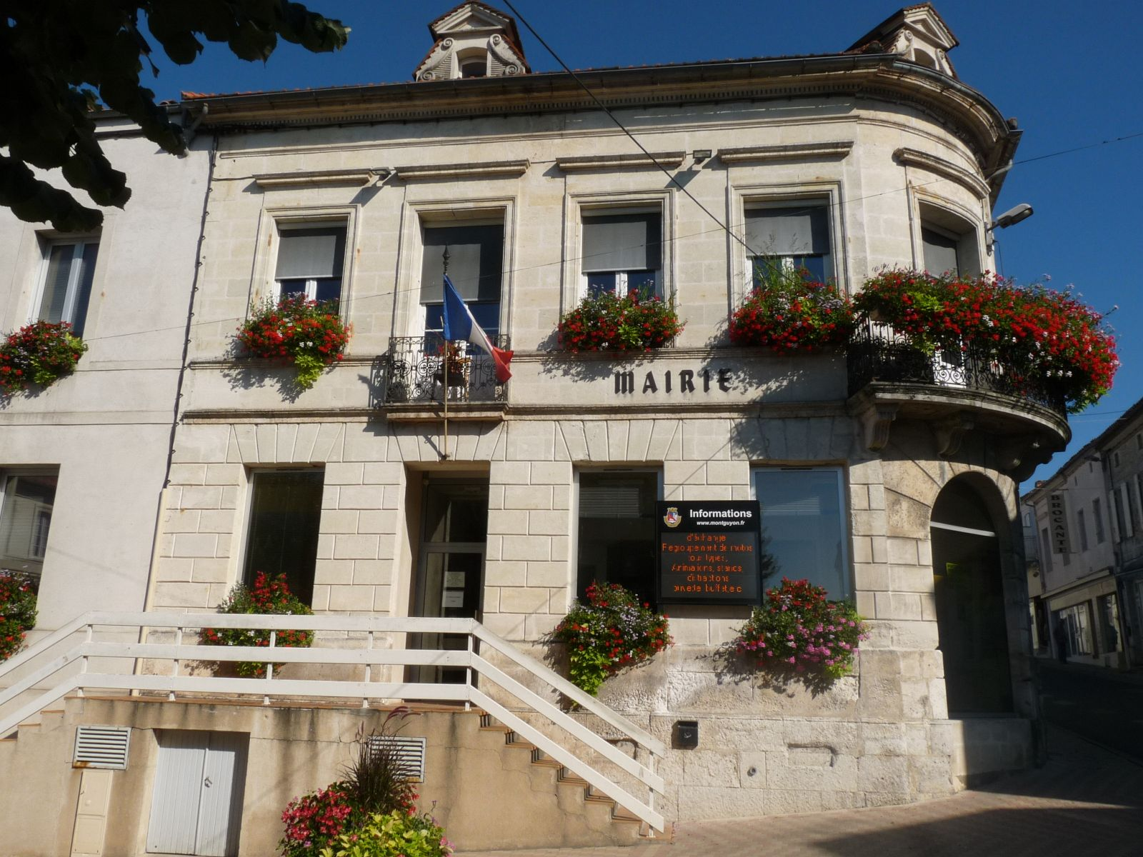 town hall of Montguyon, Charente-Maritime, SW France